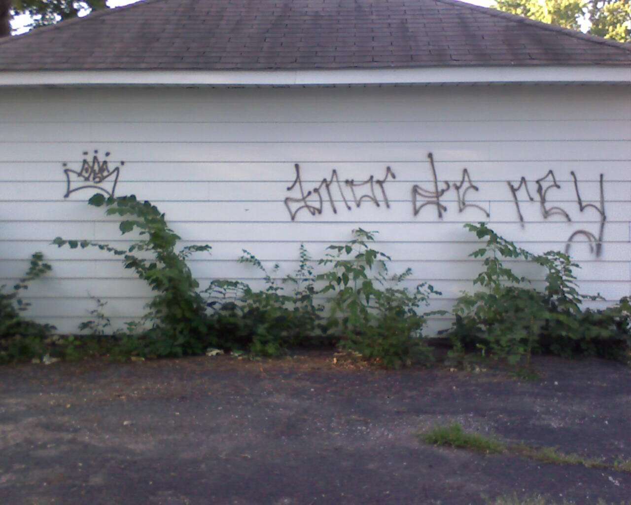 An example of common Latin Kings' vandalism - showing a crude depiction of a five-pointed crown and the saying, "Amor de Rey" (Love of the King).